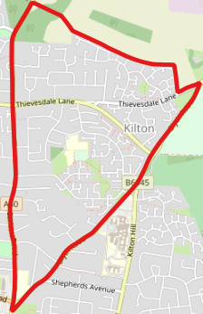 Map of the Worksop North East ward of Bassetlaw. This map may be incomplete, and may contain errors. Don't rely solely on it for navigation.